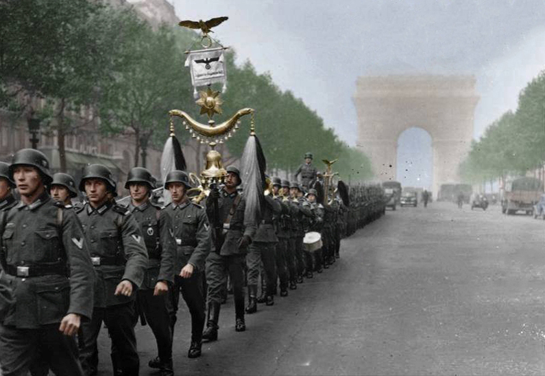 This is a retouched picture, which means that it has been digitally altered from its original version. Modifications: recolored. The original can be viewed here: Bundesarchiv Bild 146-1978-052-03, Paris, deutsche Wachtparade.jpg: . Modifications made by Ruffneck88. Paris, deutsche Wachtparade Photographer Unknown authorArchive description Description provided by the archive when the original description is incomplete or wrong. You can help by reporting errors and typos at Commons:Bundesarchiv/Error reports. Aufnahme etwa 1940 - 1941Title Paris, deutsche Wachtparade Original caption Bis zuletzt zog die Wachtparade mit klingendem Spiel über den Champs-Elysees in Paris. Im Hintergrund der Triumphbogen.Depicted place ParisDate 1940date QS:P571,+1940-00-00T00:00:00Z/9Collection German Federal Archives Native nameDas BundesarchivLocationKoblenz (headquarters)Coordinates50° 20′ 32.71″ N, 7° 34′ 21.22″ E Established1946Web page control : Q685753 VIAF: 137346469 ISNI: 0000 0004 0555 2728 LCCN: n92025526 NLA: 36455393 Open Library: OL55798A WorldCat institution QS:P195,Q685753Current location Sammlung von Repro-Negativen (Bild 146)Accession number Bild 146-1978-052-03 Source This image was provided to Wikimedia Commons by the German Federal Archive (Deutsches Bundesarchiv) as part of a cooperation project. The German Federal Archive guarantees an authentic representation only using the originals (negative and/or positive), resp. the digitalization of the originals as provided by the Digital Image Archive. Bis zuletzt zog die Wachtparade mit klingendem Spiel über den Champs-Elysees in Paris. Im Hintergrund der Triumphbogen.